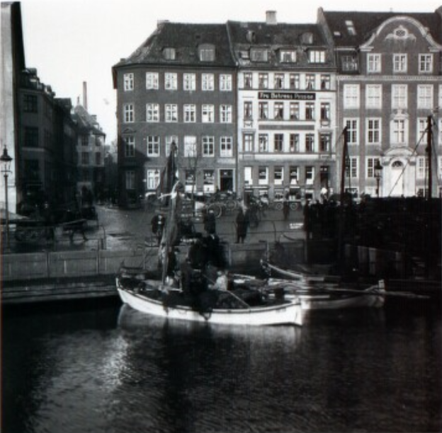 Fishing boats at Gammel Strand 50-52 in Copenhagen, Denmark